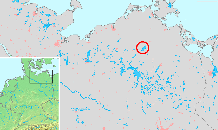 Locator maps of lakes in Germany : Location Kummerowersee.PNG